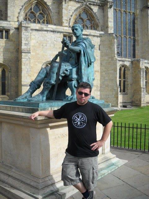 Serbian writer Dejan Stojiljković in York.